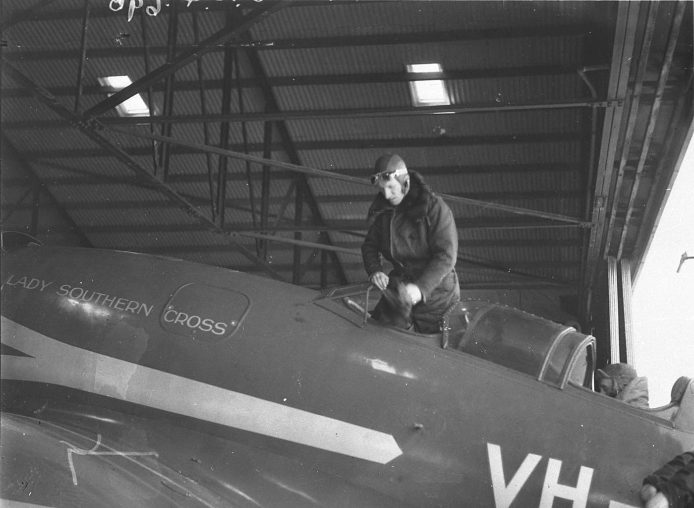 Kingsford Smith's Lockheed Altair, Lady Southern Cross arrives from Brisbane